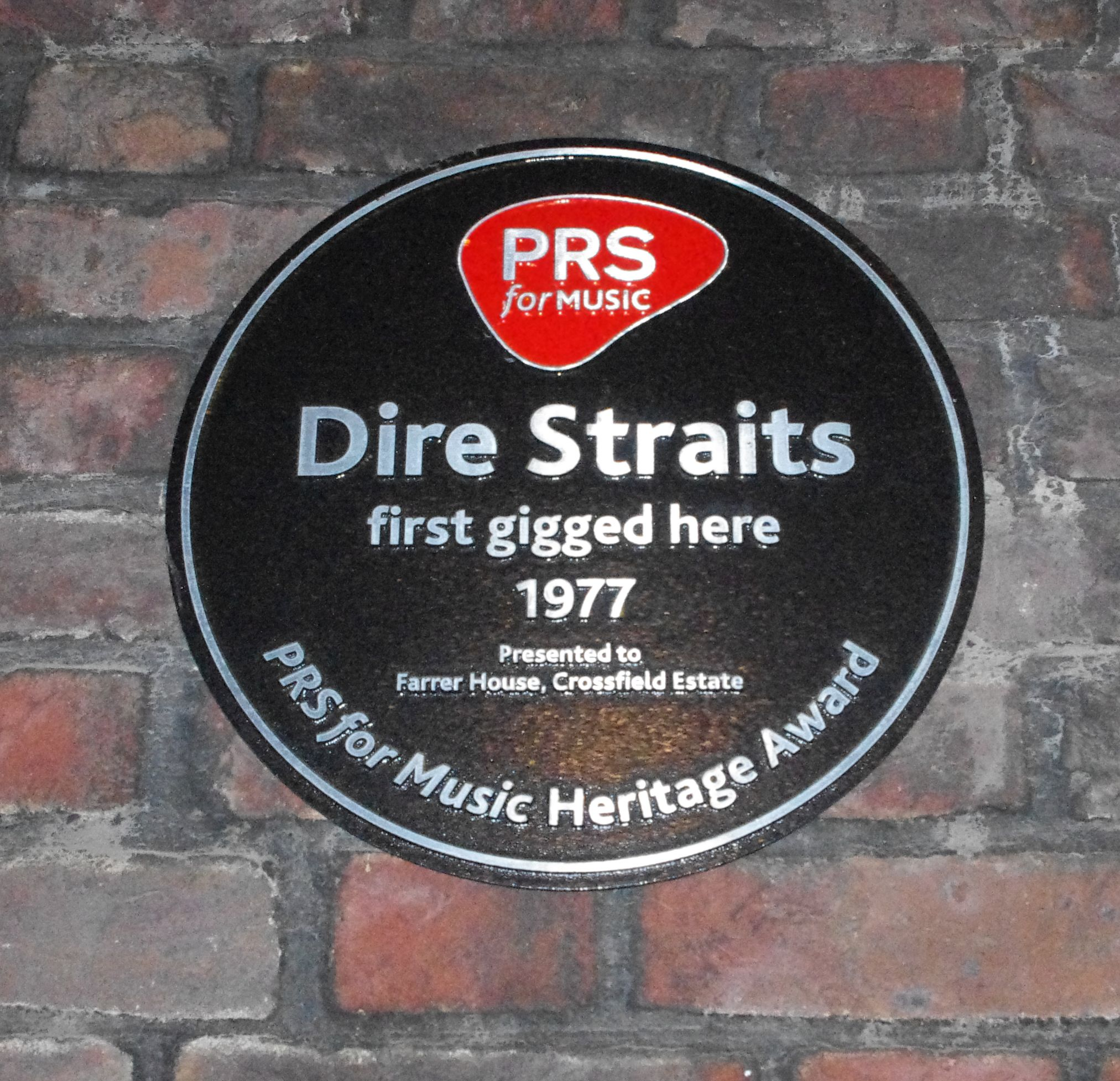 PRS for music Dire Straits commemorative plaque in Deptford, London, UK.